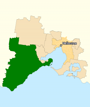 This image incorporates data that is: © Commonwealth of Australia (Australian Electoral Commission) 2009 Division of Corangamite 2010